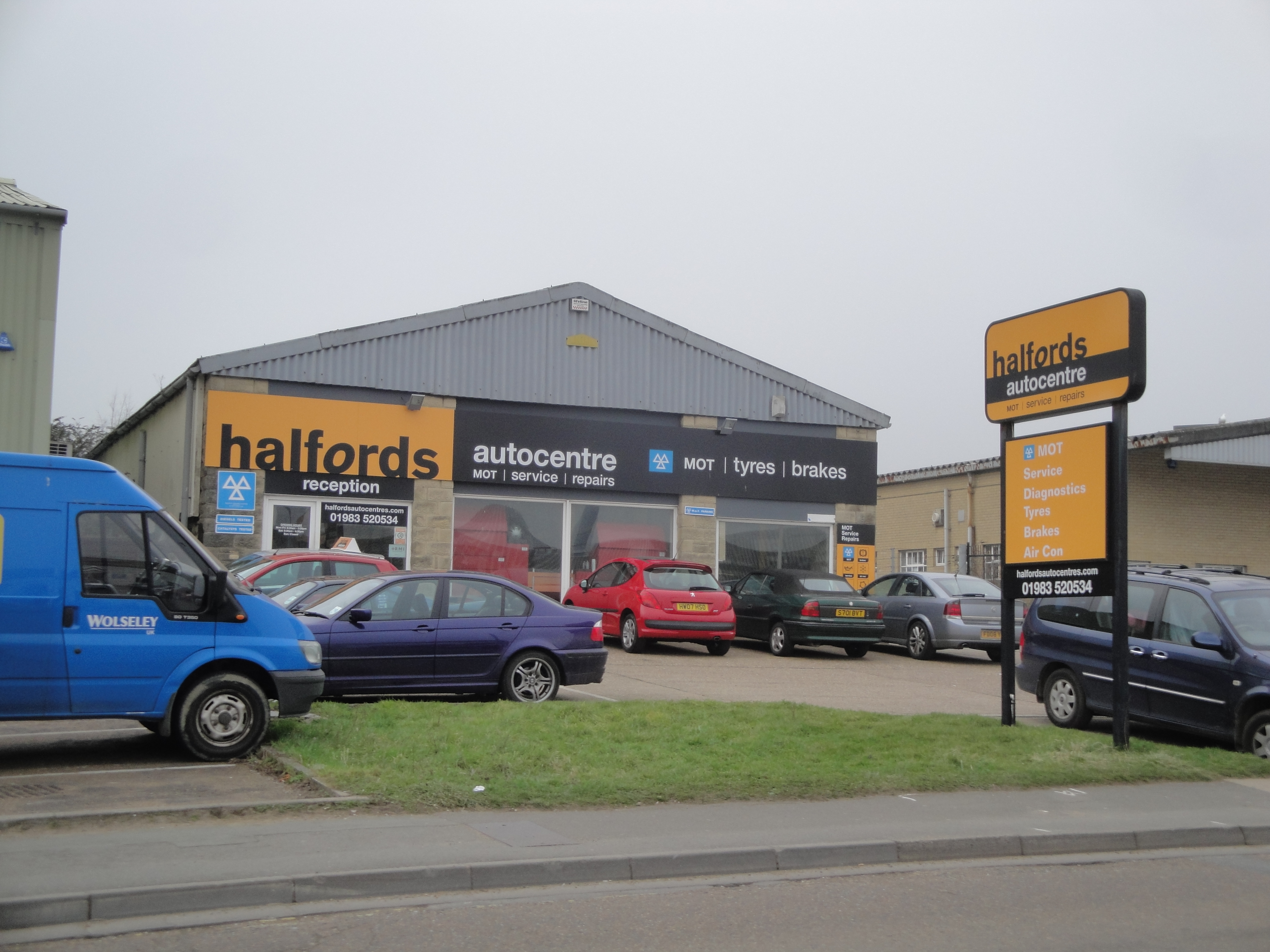 A branch of Halfords Autocentre, in River Way, Newport, Isle of Wight in March 2012.